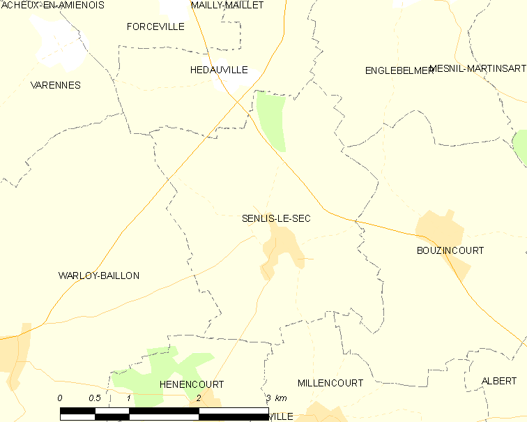 Map of French municipality Senlis-le-Sec